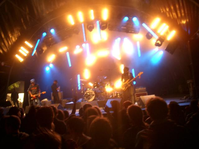 Dutch band Urban Dance Squad in concert.